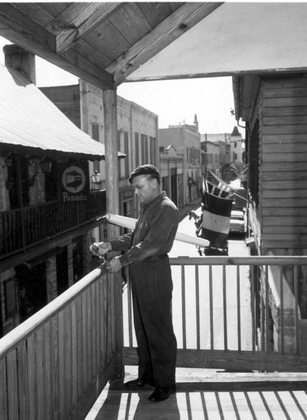 Albert Manucy standing on the balcony of the Arrivas House on St. George Street in St. Augustine, Florida.